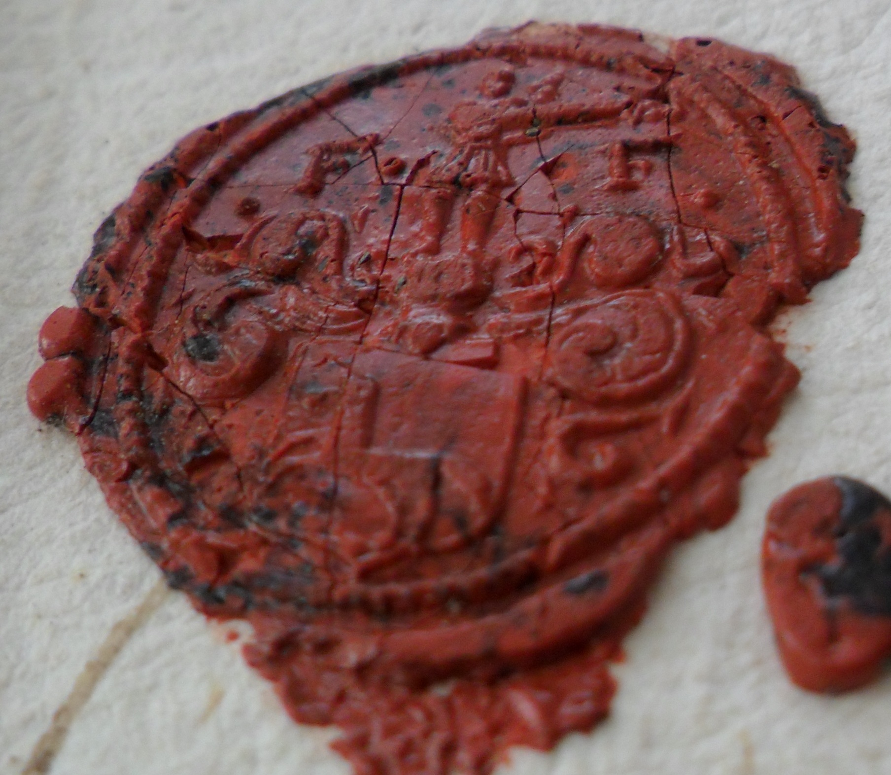 Wax seal stamp with the coat of arms of Ferenc Farkas de Boldogfa (22 September 1713 – 22 February 1770) was a Hungarian nobleman, jurist, landowner, vice-ispán of the county of Zala (alispán of Zala).